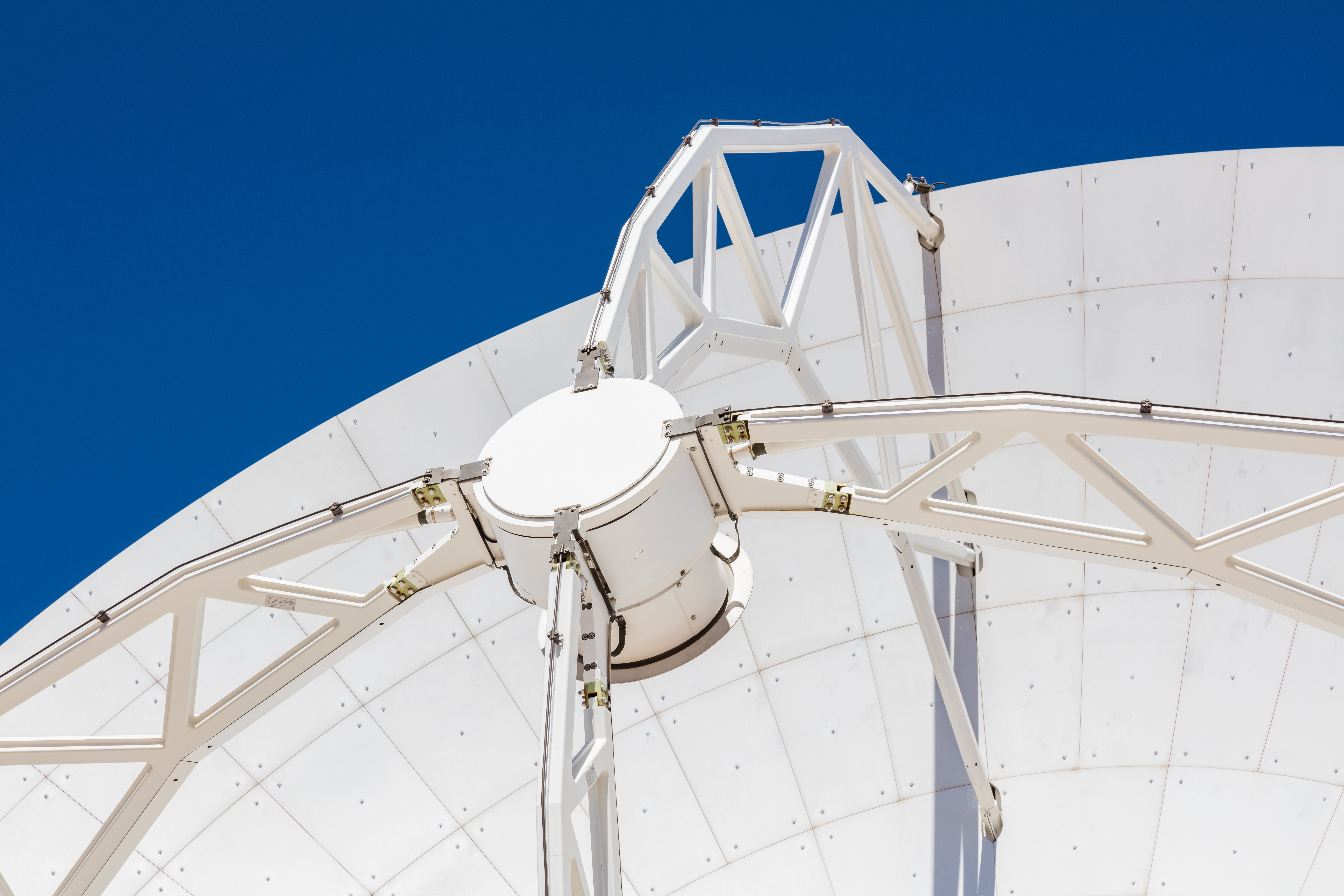 ALMA (Atacama Large Millimeter Array) space observatory, Atacama desert, Chile